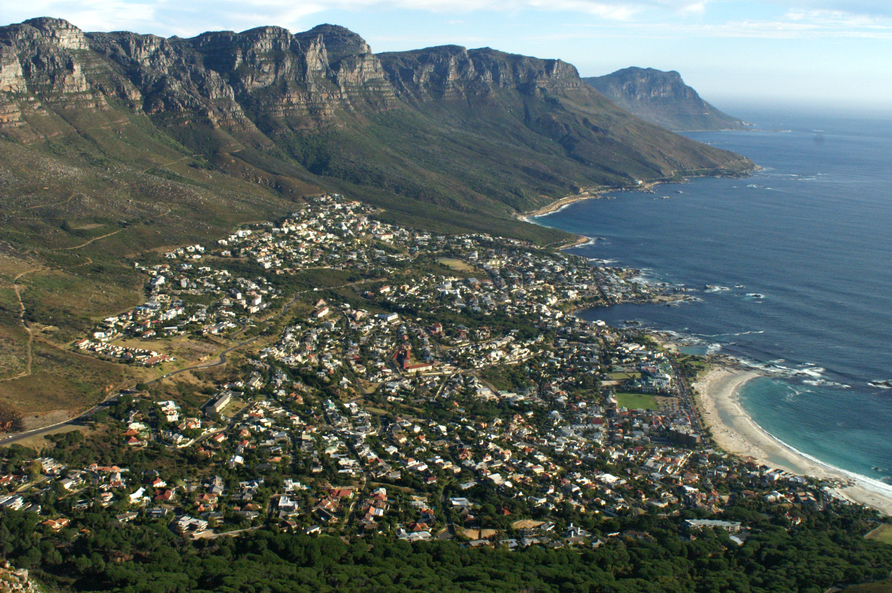 A view of Camps Bay, Cape Town, facing south from the ascent to Lion's Head. The Twelve Apostles are clear, as is the undeveloped coastline going towards Llandudno.(I'll upload a better version sometime. For some reason, the camera decided ISO 1600 was appropriate on a sunny Autumn day...)